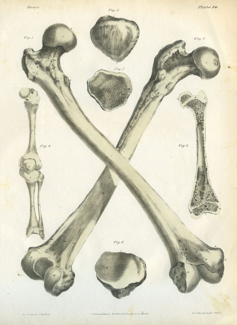 A Series of Anatomical Plates The Structure of the Different Parts of The Human Body. by Jones Quain, M.D. Published in 1854